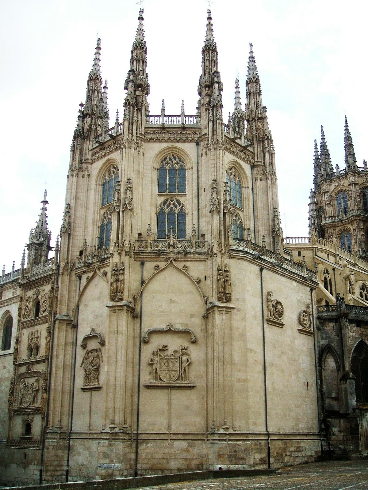 Ábside y cimborrio de la Capilla del Condestable de la Catedral de Burgos, España